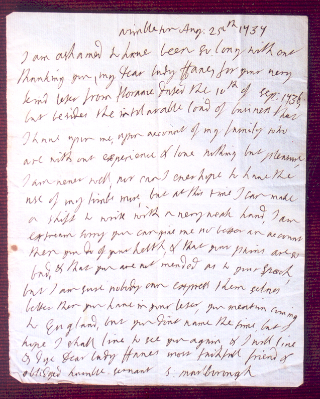 scan of photo by R. de Salis, cApril 2006, Rodolph 20:10, 1 March 2007 (UTC) Transcript Original spelling and punctuation unedited. [on right] Wimbleton Aug: 25th 1737 I am ashamed to have been so long with out thanking you, my Dear lady Hane, for your very kind leter from florance dated the 10th of Sep: 1736, but besides the intolarable load of business that I have upon me, upon account of my family who are with out experience & love nothing but pleasure, I am never well, nor can I ever hope to have the use of my limbs more, but at this time I can make a shift to write with a very weak hand. I am extream sorry you can give me no better an account then you do of your helth, & that your pains are so bad, & that you are not mended as to your speech, but I am sure nobody can express them selves better than you have in your leter, you mention coming to England, but you don't name the time, but I hope I shall live to see you again & I will live & dye Dear lady Hanes most faithfull friend & oblidged humble servant S. Marlborough